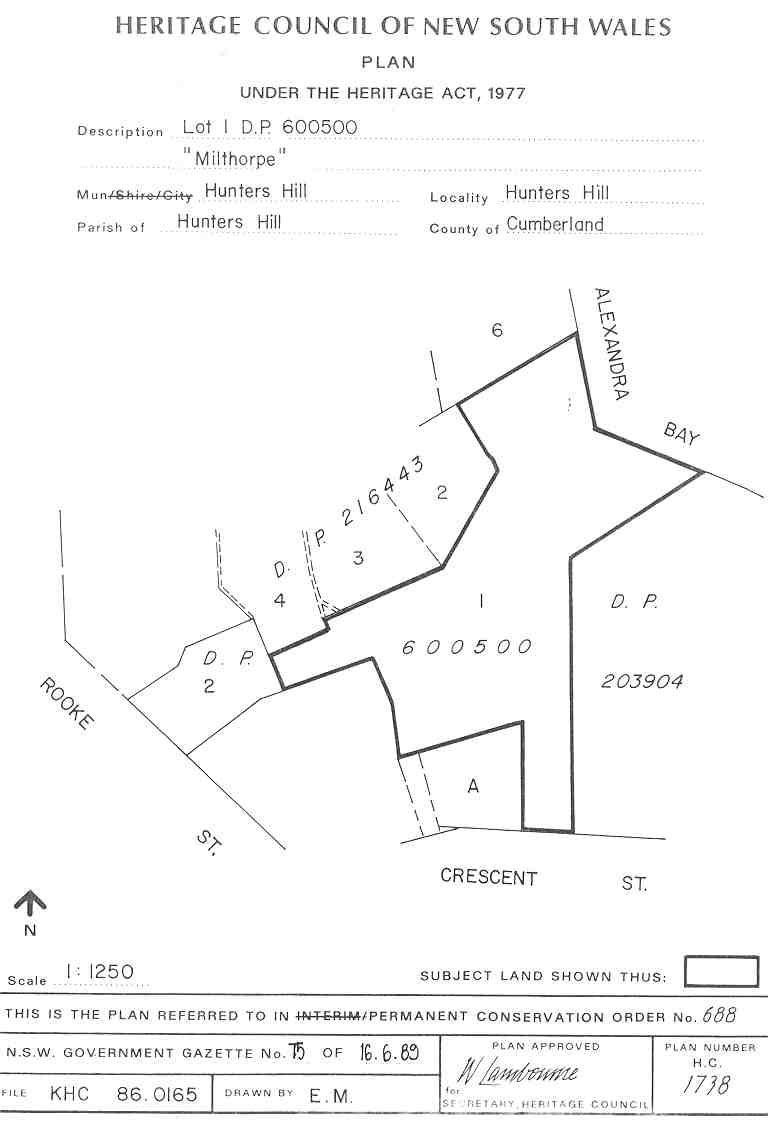 Milthorpe, Hunters Hill: PCO Plan Number 688